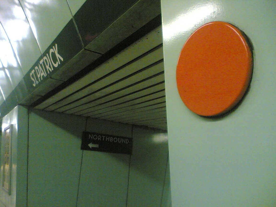 Orange Dot at St. Patrick Subway Station The dots are explained at the Unorthodox Tips for Riding the TTC: "The orange dot on six-car subway platforms can be used as an easy way to remember where to wait for the train on the platform, so that when you get to your destination station, you're lined up near the stairs or escalators."